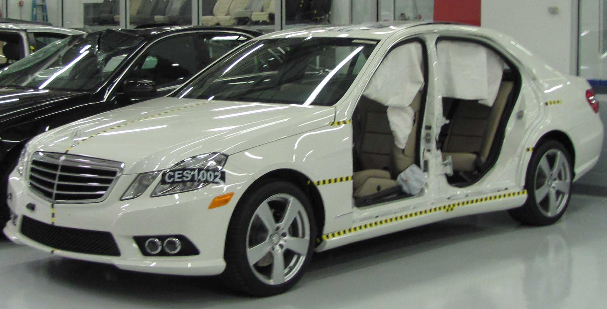 Crash-tested 2010 Mercedes-Benz E 350 photographed at the Insurance Institute for Highway Safety Vehicle Research Center. IIHS crash test page